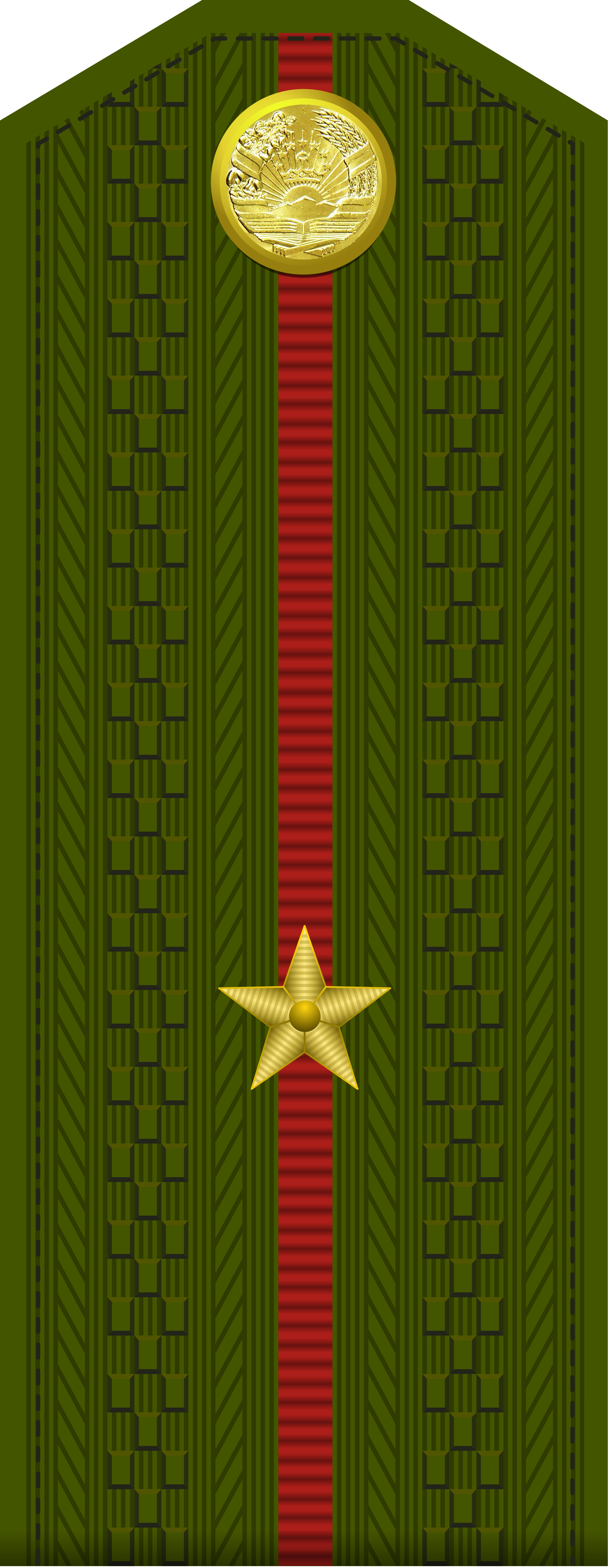 Тоҷикӣ: Rank insignia of Junior Lieutenant for the Tajikistan Army